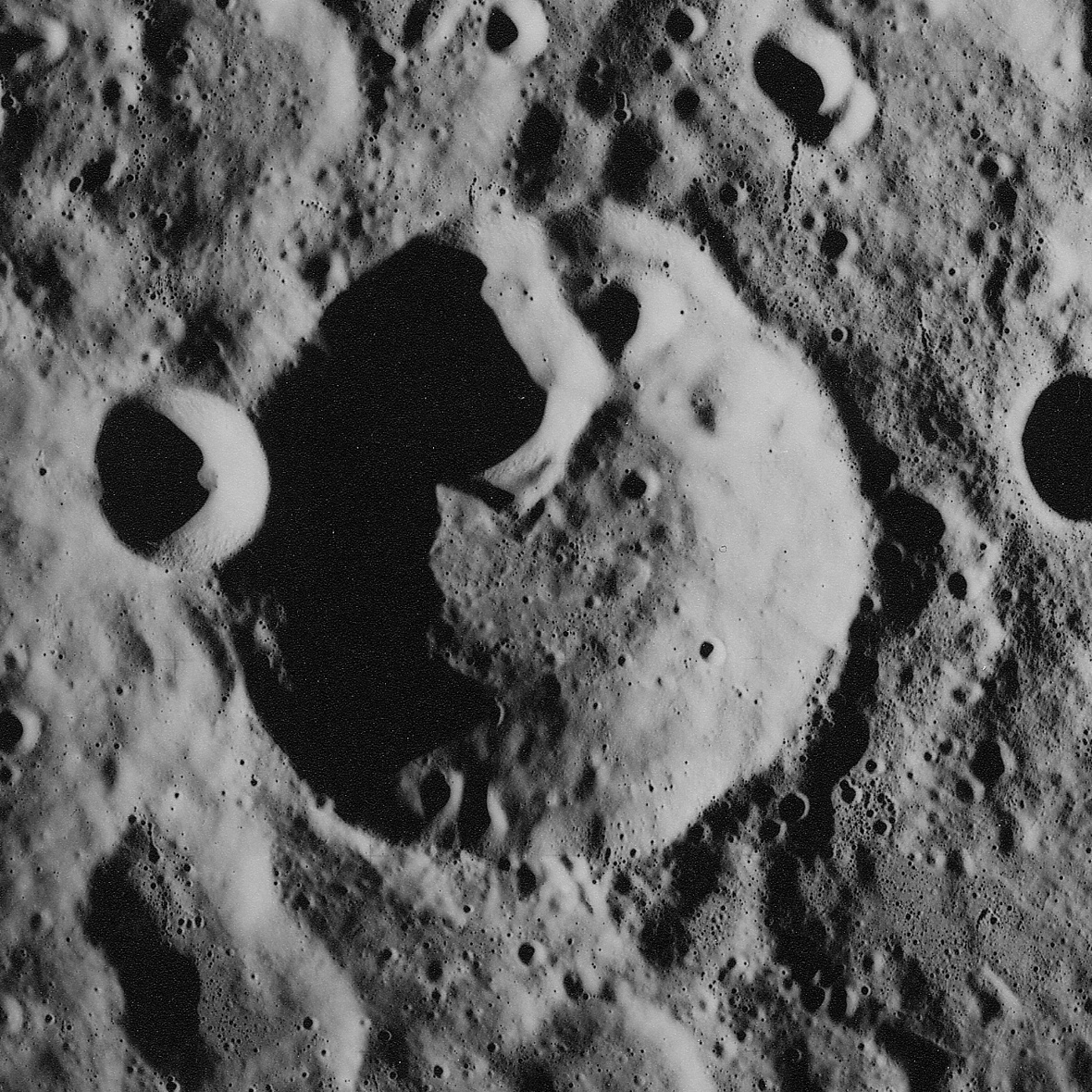 Mohorovičić, on the far side of the moon. Taken from an altitude of approximately 114 km on Revolution 1 of the Apollo 17 mission. Sun angle is about 11 deg.